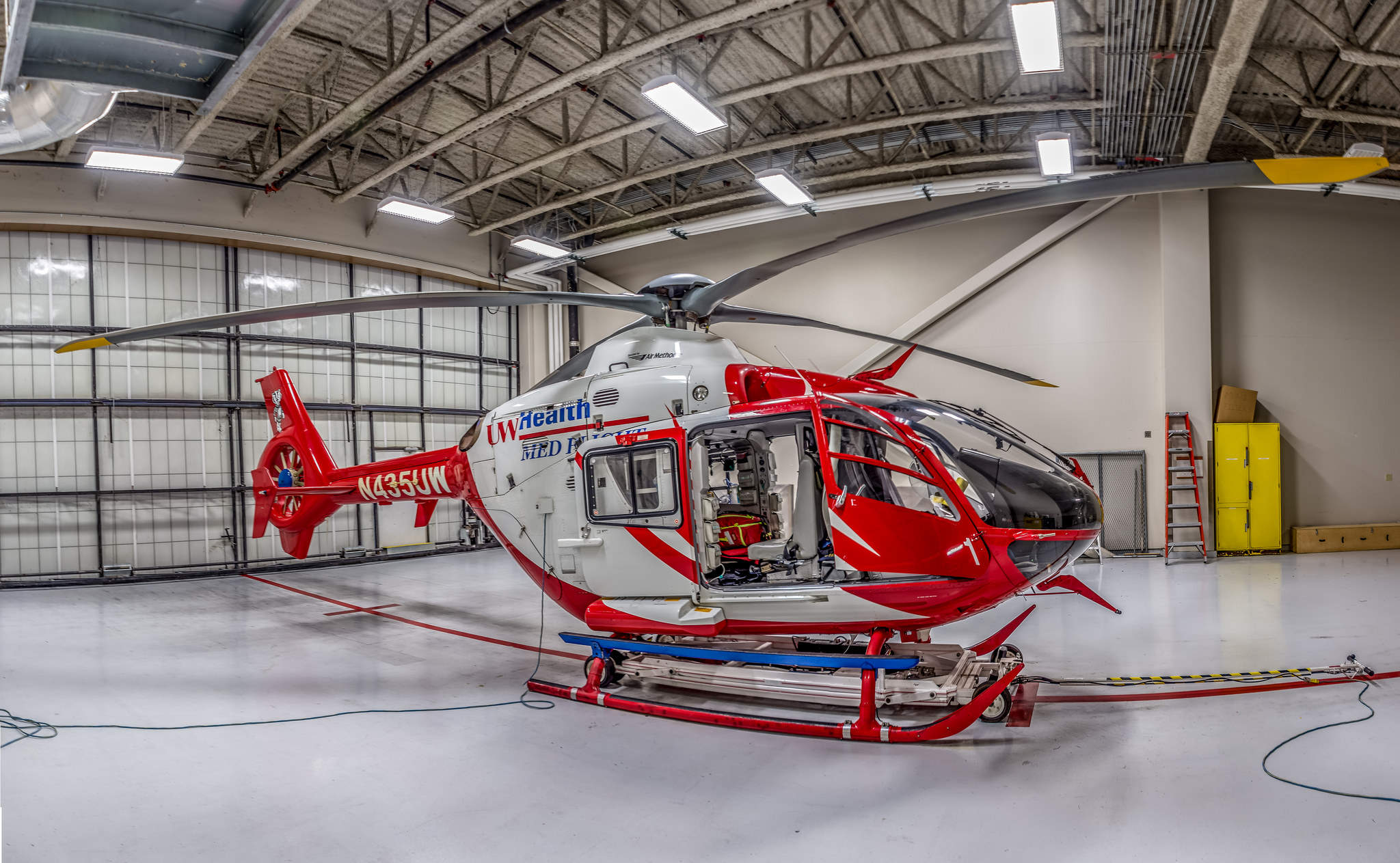 UWMF in Hangar. P Rankin